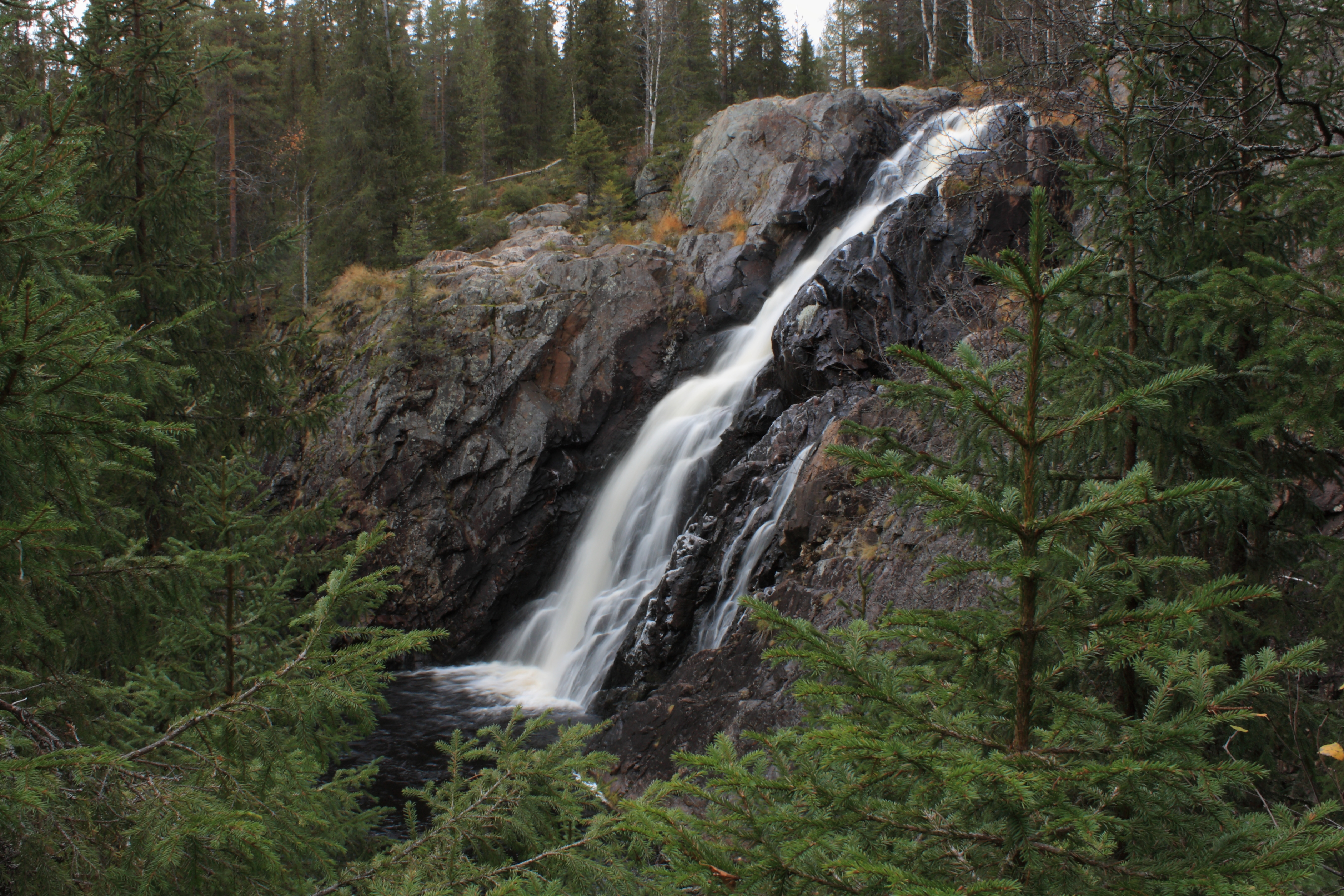 Hepoköngäs waterfall in Puolanka, Finland. The photo was taken with a long exposure time (to smoothen the water).